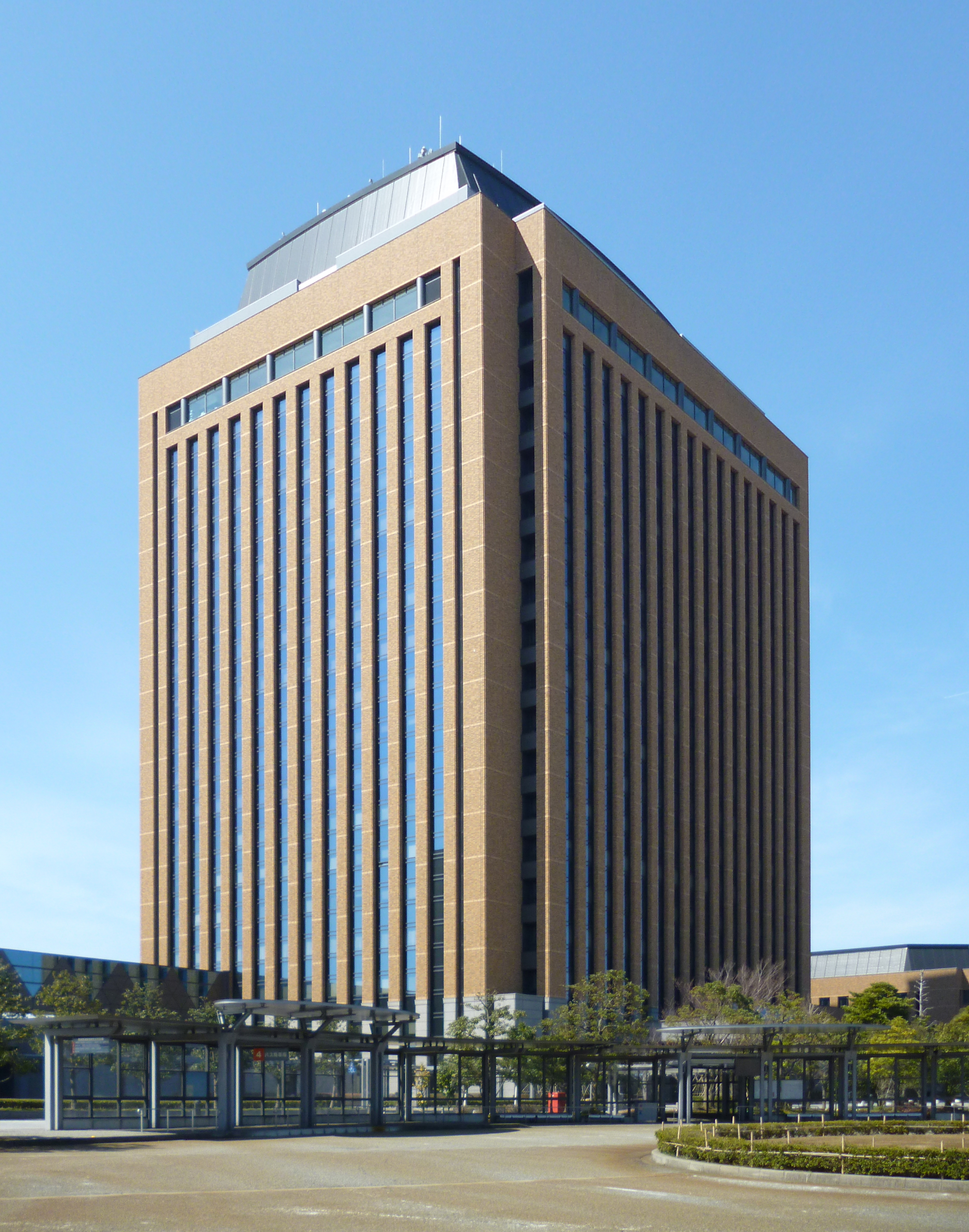 Ishikawa prefectural office building in Kanazawa, Ishikawa, Japan